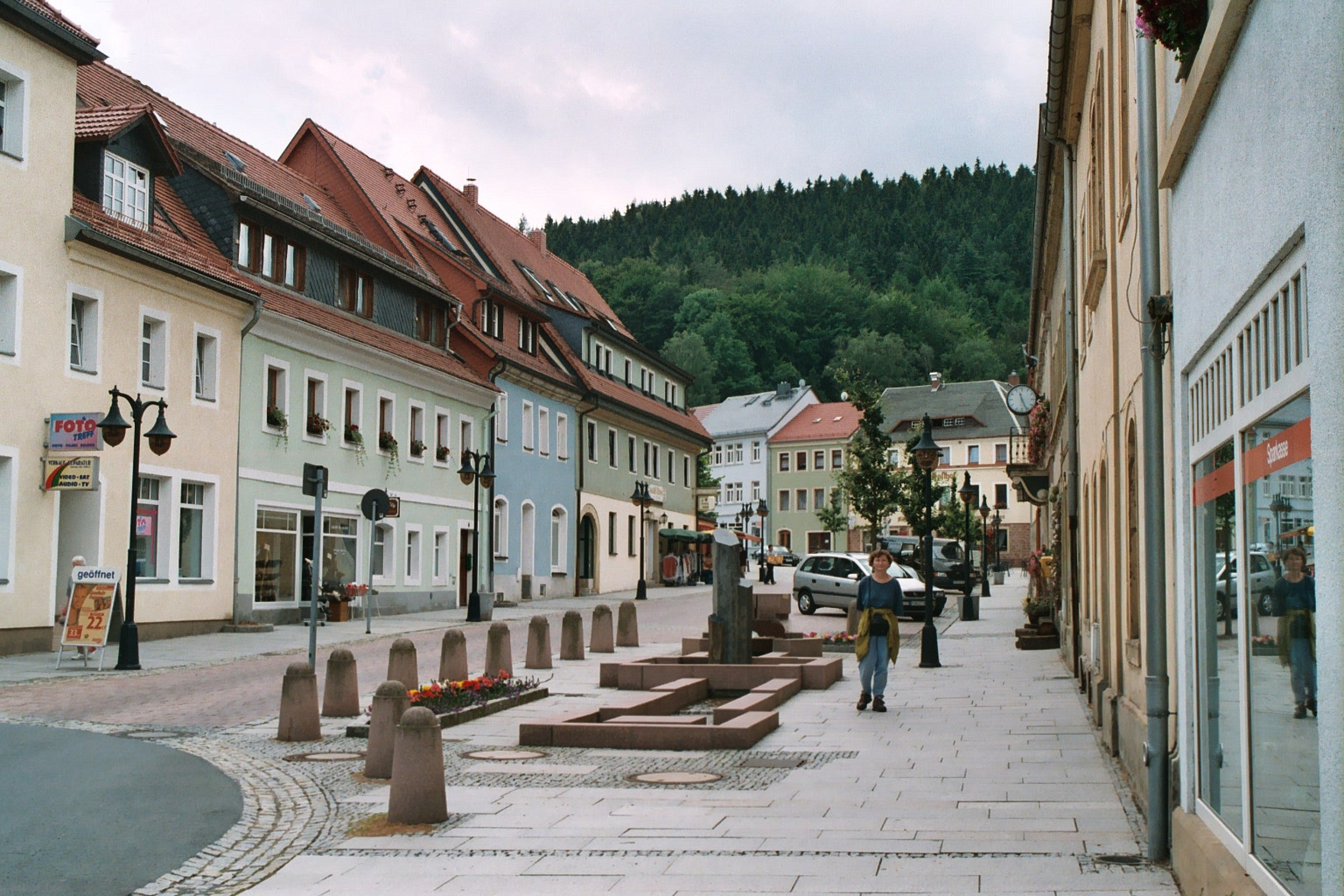 Bad Gottleuba, the street "Hauptstraße"